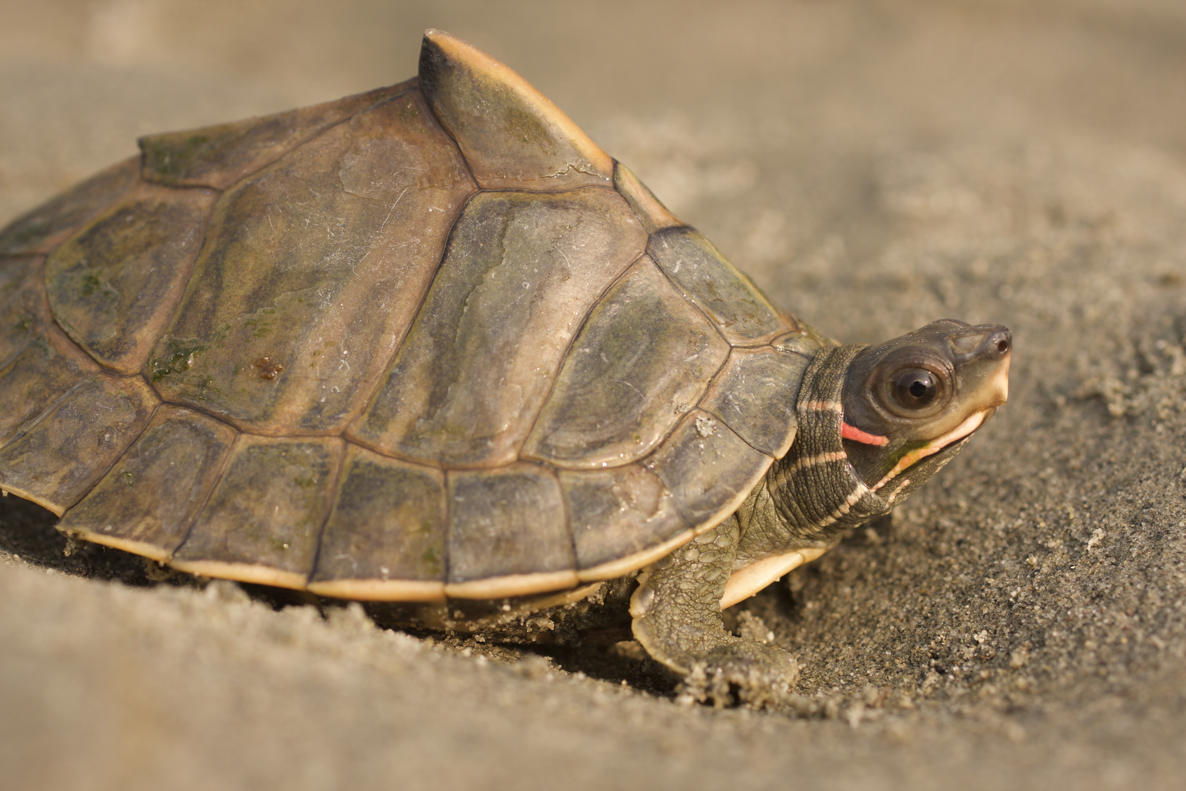 Photo taken at Biswanath Ghat, Assam, India